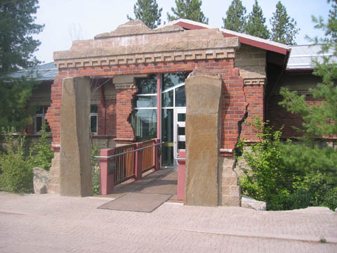 Photograph of Cyan Worlds' main entrance in Spokane, Washington. Taken in the summer of 2004, by Ellen Rockett.